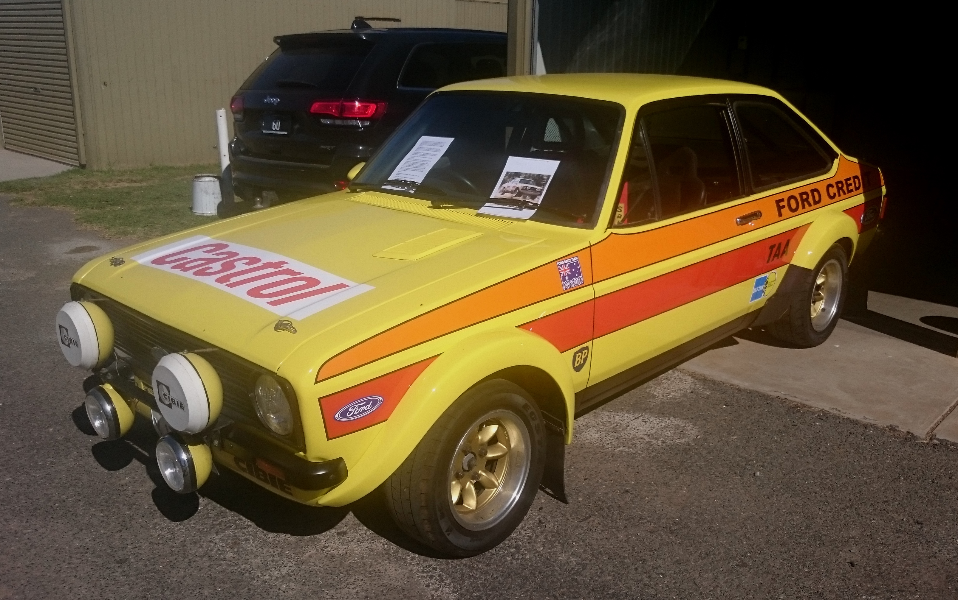 Ford Escort RS1800 (VJT444). Pictured at Mallala Motor Sport Park in 2016, this car won the 1979 Castrol Internationla Rally in the hands of Greg Carr and was driven by Colin Bond to second place in the 1980 Australian Rally Championship.